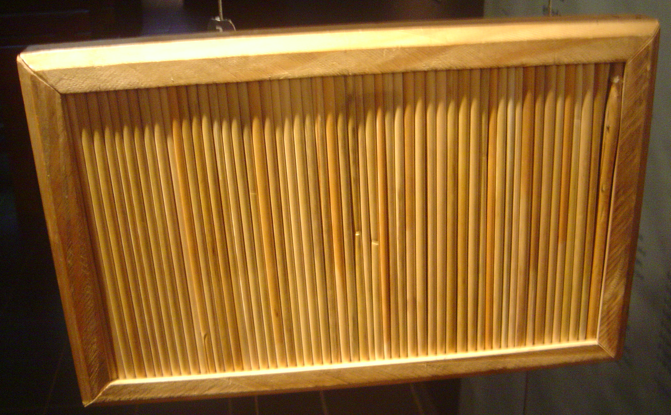 A kayamb, musical instrument used for playing Maloya on Réunion.